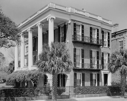 Robert William Roper House (Charleston) (cropped)